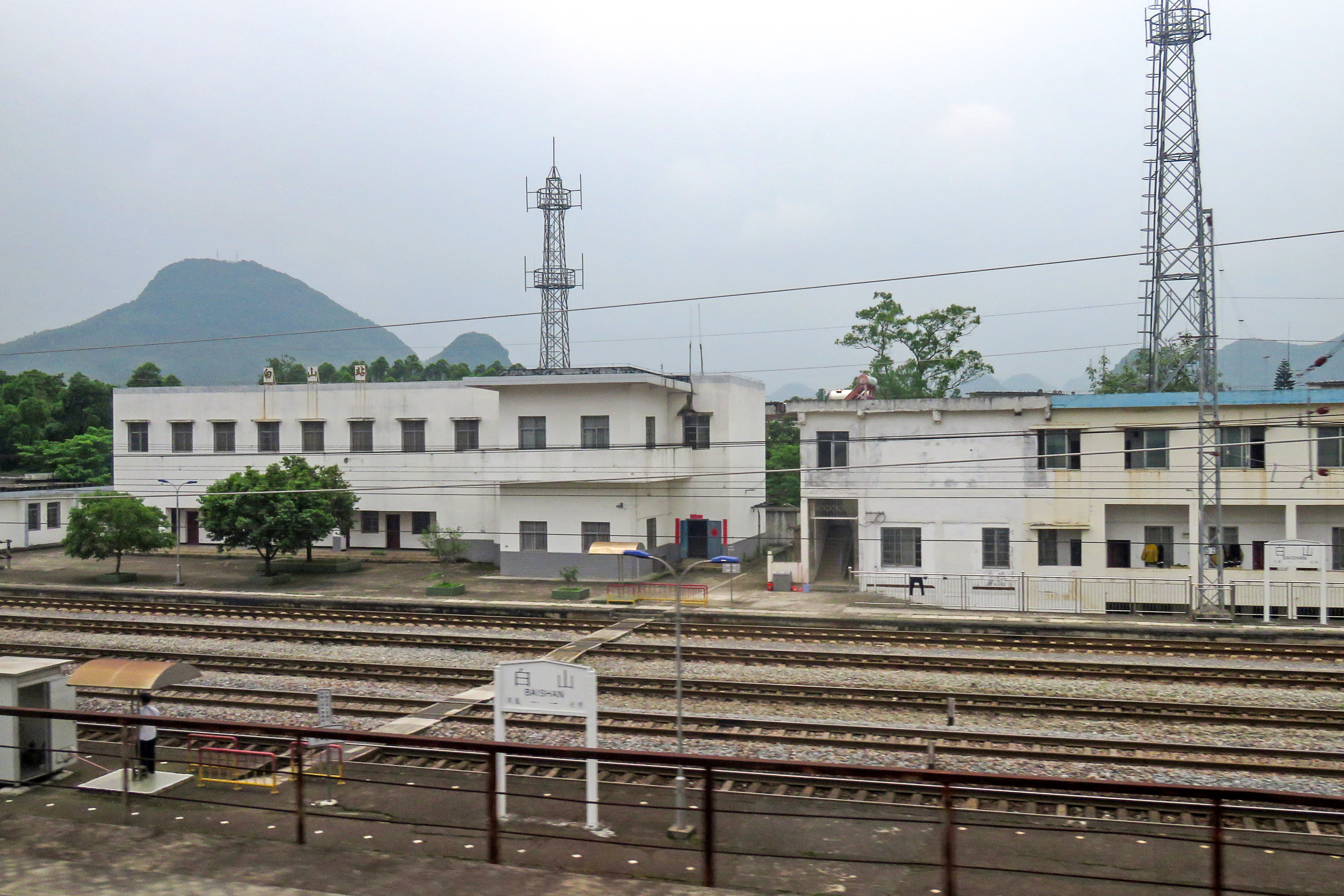 This "Baishan Railway Station" is not in the northeast... The northeastern one is called Baishanshi Railway Station. Taken from D3753.